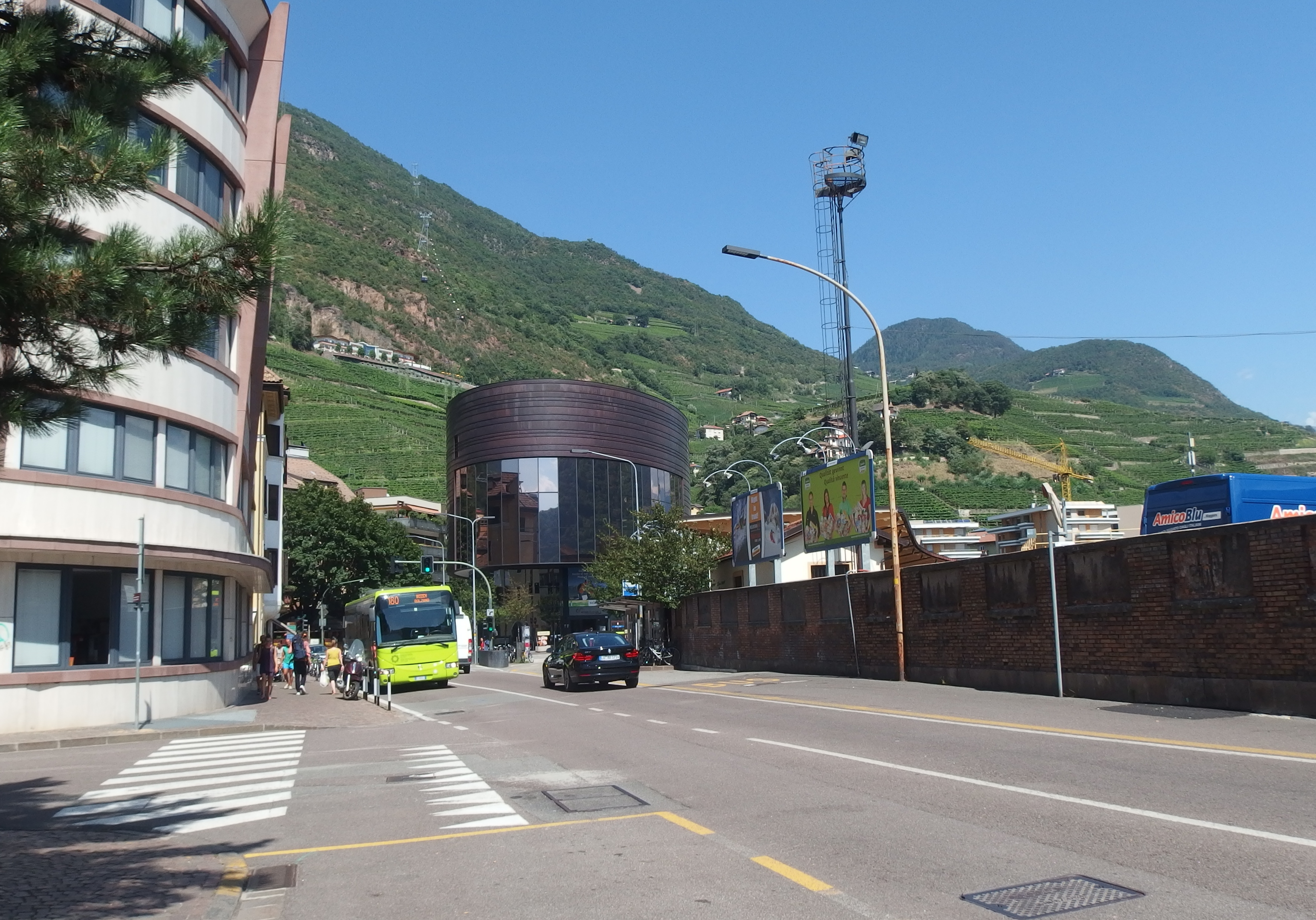 The Ritten Aerial cableway is an aerial cableway between Bolzano and Oberbozen/Soprabolzano on the Ritten plateau.